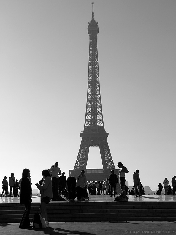 Eiffel Tower from Trocadero. B&W photo.